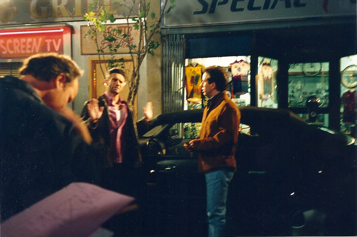 Anthony Crivello (as Maxwell) and Jerry Seinfeld in the episode The Maid of the sitcom Seinfeld.